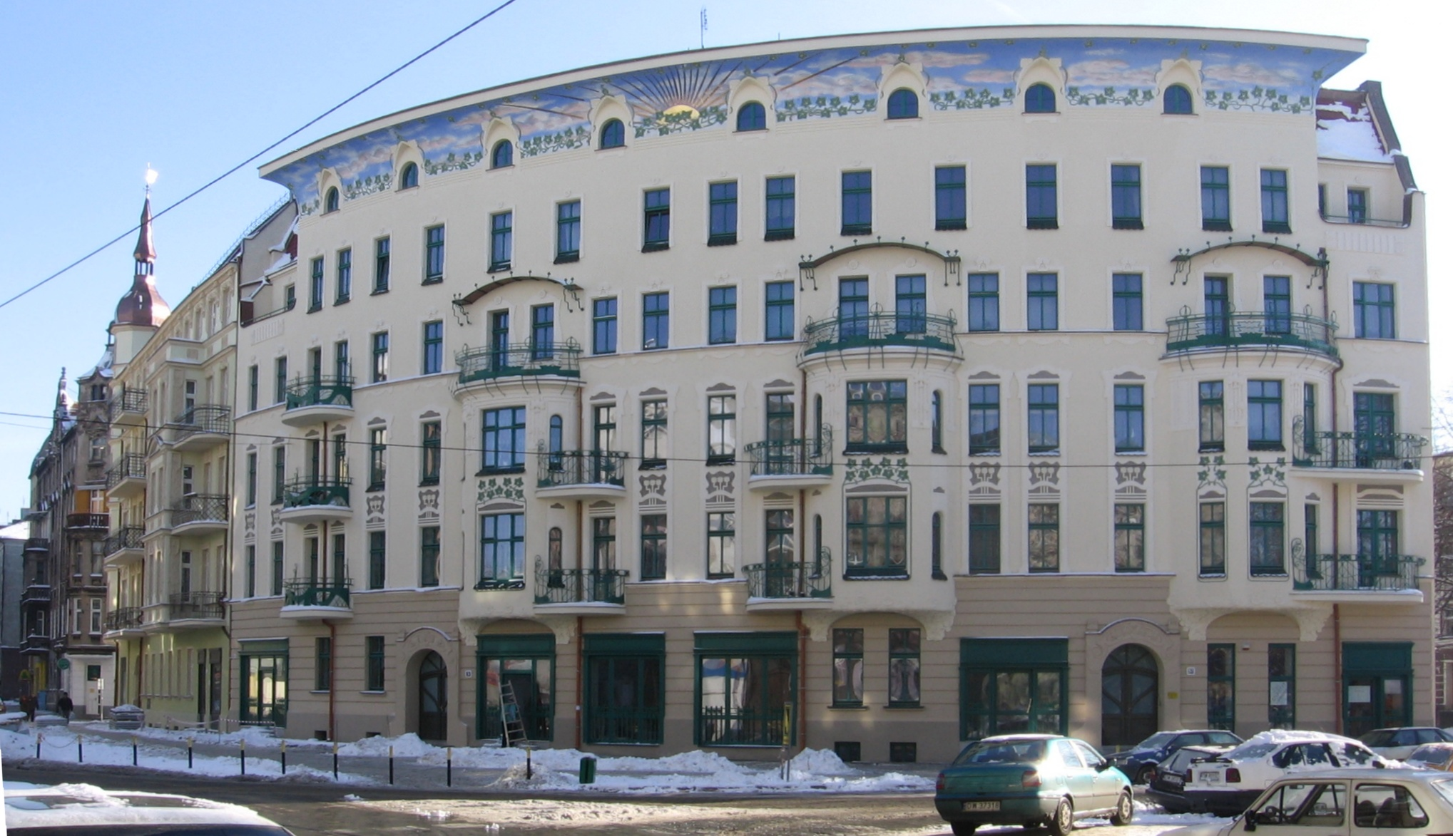 Wrocław (quarter Ołbin), Poland Secession (Art Nouveau) tenement-house, built 1902 (arch. Wilhelm Heller) on the corner of Prusa street (former Lehmdammstr.) No.5-5a and Świętokrzyska street (former Kreuzstr.) No.57 after renovation 2005-2006